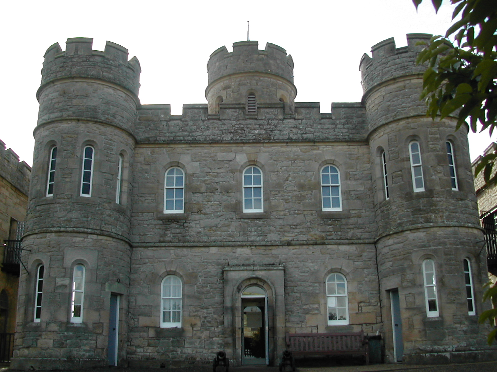 Nom du fichier : DSCN2378.JPG Taille du fichier : 659.5 Ko (675326 octets) Date : 2003/10/23 14:27:23 Taille de l'image : 1600 x 1200 pixels Résolution : 300 x 300 ppp Profondeur en bits : 8 bits/canal Attribut de protection : Désactivé Attribut Masqué : Désactivé ID de l'appareil : N/A Appareil : E775 Mode de qualité : FINE Mode de mesure : Multizones Mode d'exposition : Programme Auto Speed Light : Non Distance Focale : 5.8 mm Vitesse d'obturation : 1/96.1 seconde Ouverture : F7.9 Correction d'exposition : 0 IL Balance des blancs : Auto Objectif : Intégré Mode Synchro-Flash : Réduction des Yeux Rouges Différence d'exposition : N/A Programme Décalable : N/A Sensibilité : Auto Renforcement de la netteté : Auto Type d'image : Couleur Mode Couleur : N/A Saturation : N/A Contrôle Saturation : N/A Compensation des tons : Normal Latitude (GPS) : N/A Longitude (GPS) : N/A Altitude (GPS) : N/A